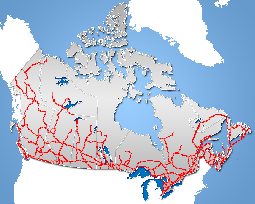 Road system of Canada (revised)